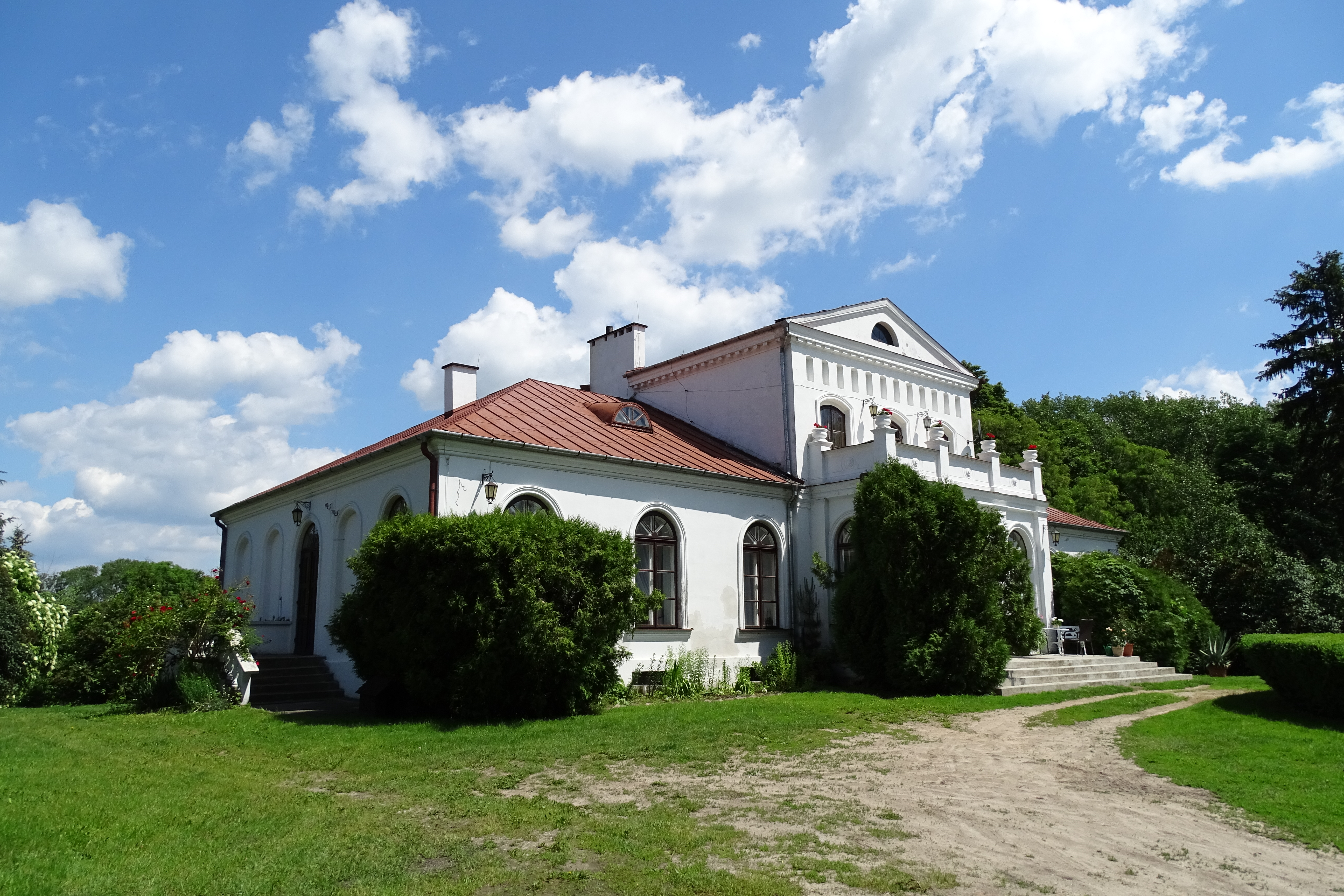 Unisławice, Gmina Kowal, Poland. The manor house. Built XVIII-XIX century on the gothic basements.